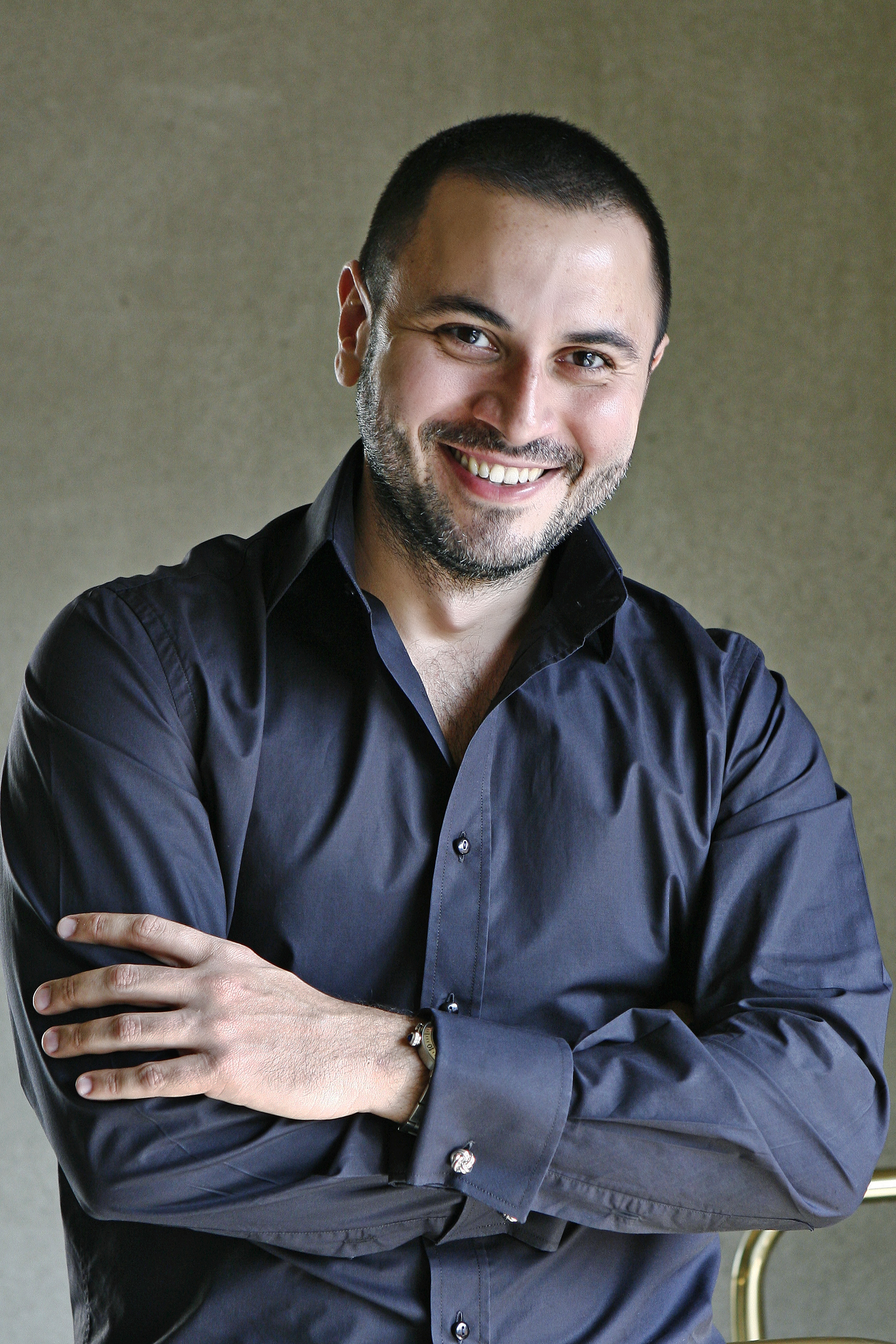 Andre Lima (estilista)